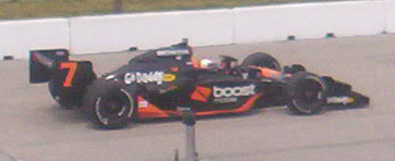 Danica Patrick at practice during the Honda Indy (Toronto 2009)